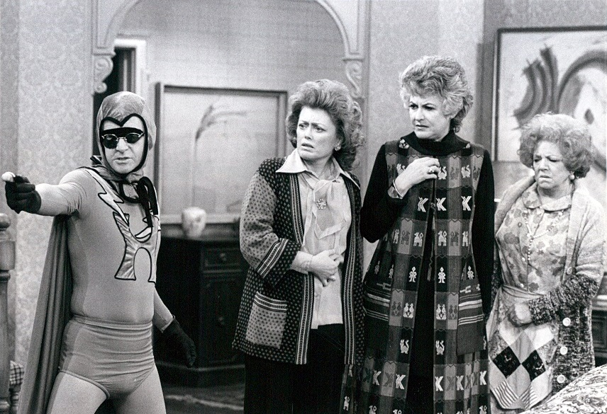 John Byner, Rue McClanahan, Beatrice Arthur, and Hermione Baddeley in a promotional photograph in the television series Maude, Season 5, Episode 14 (1977)